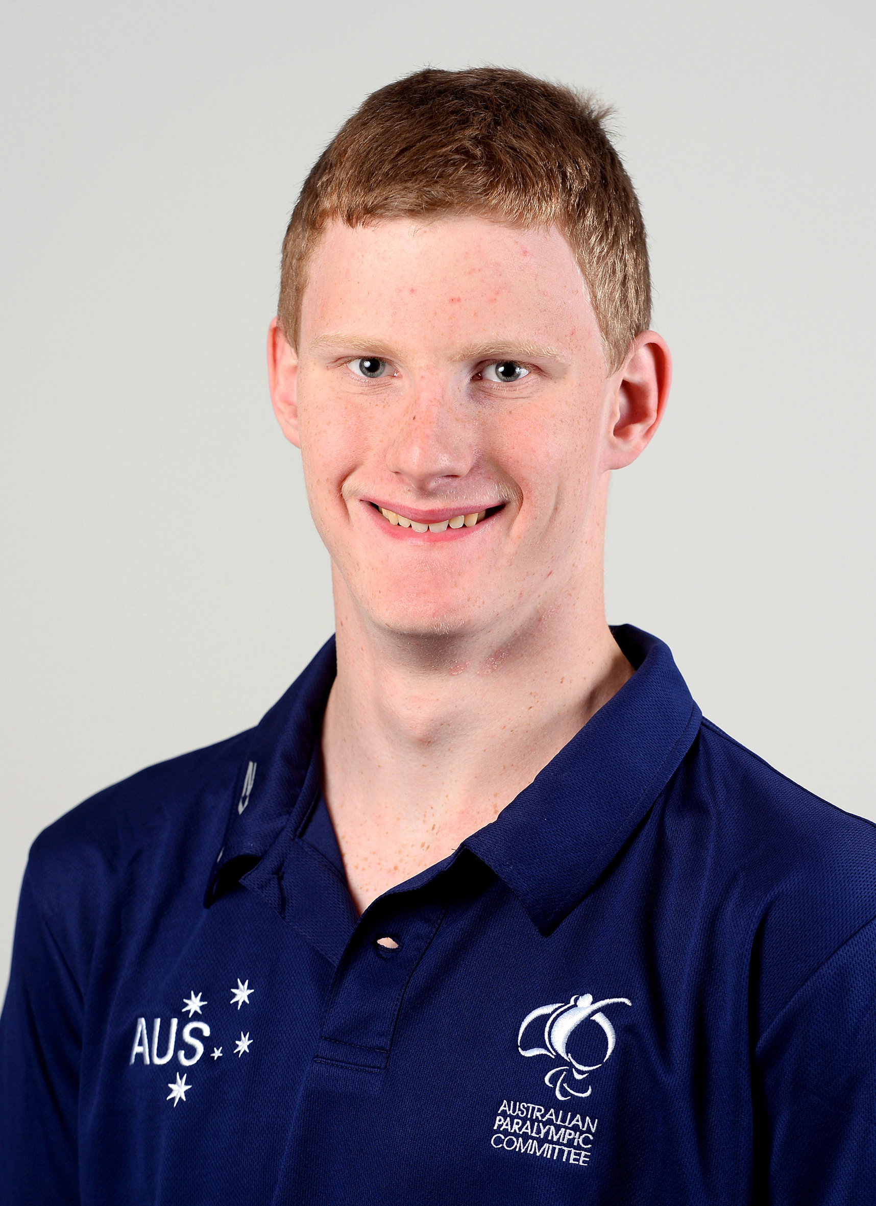 Portrait photograph of Rowan Crothers taken at team processing session for shadow members of 2016 Australian Paralympic team